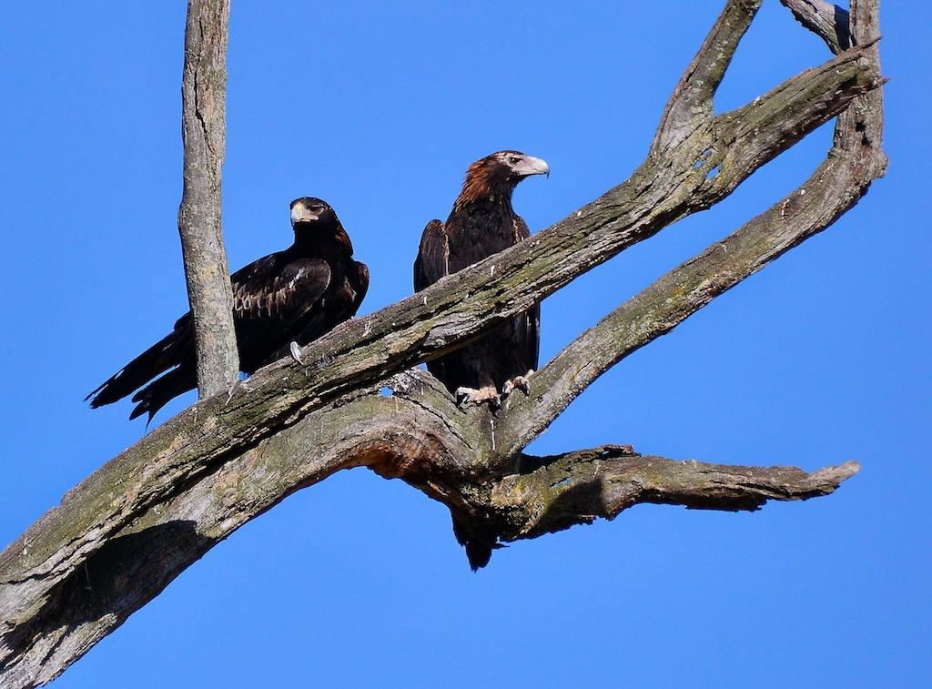 Aquila audax